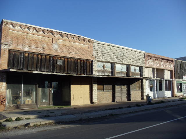 Downtown Tolar